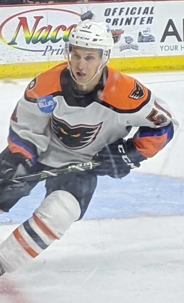 Kyle Criscuolo, a forward with the Lehigh Valley Phantoms ice hockey team, at the PPL Center in Allentown, Pennsylvania, on January 11, 2020.